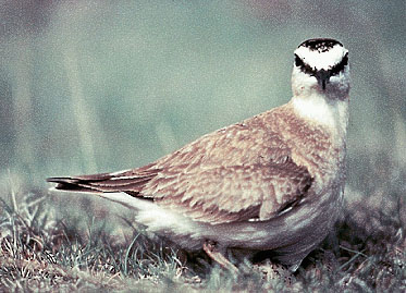 Charadrius montanus on nest.